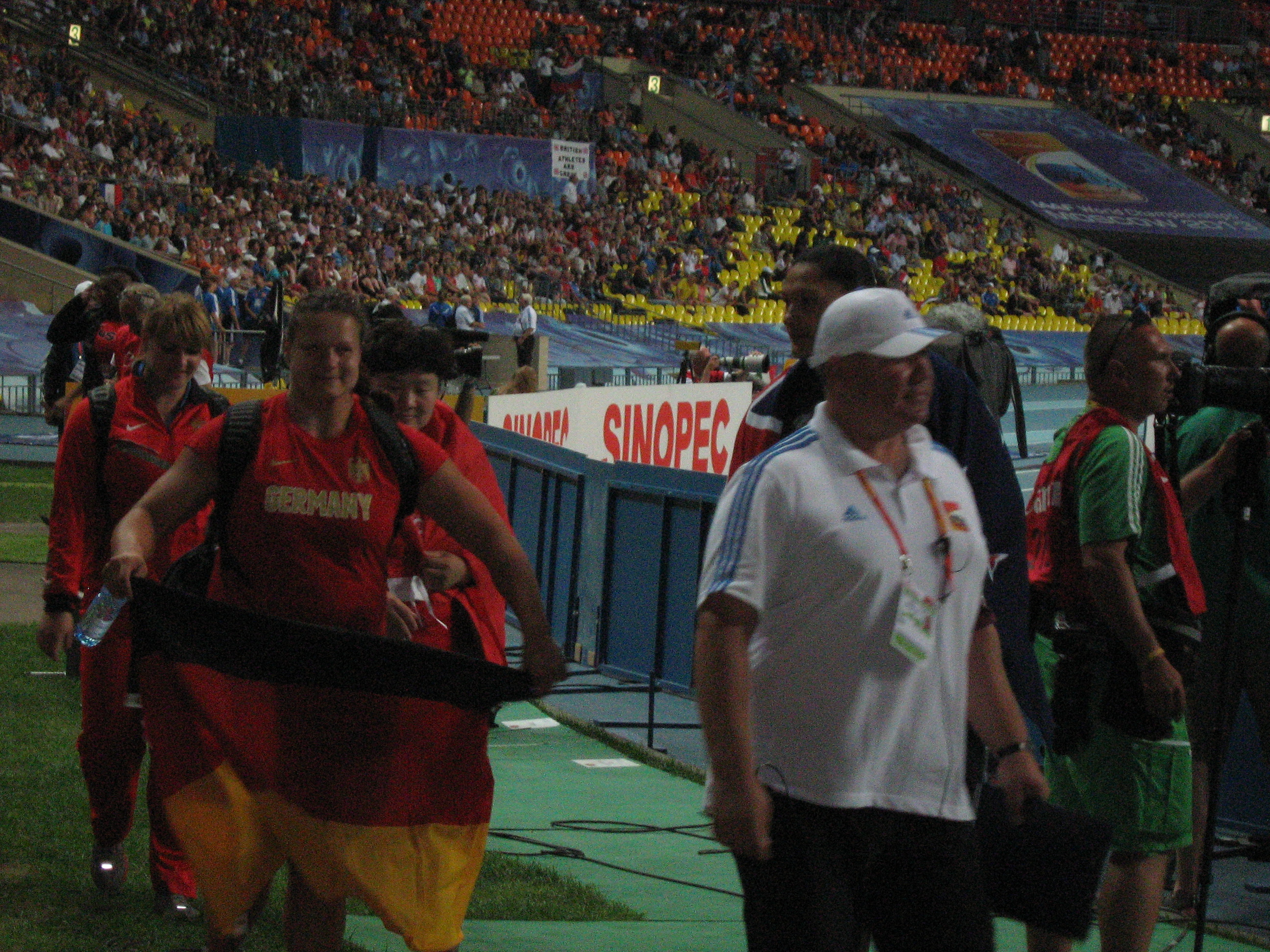 The second day of the World Championships in Athletics in Moscow 2013